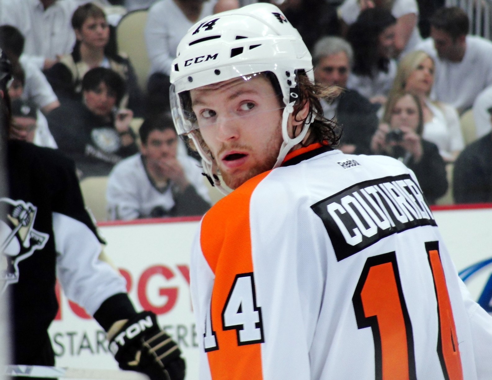 Philadelphia Flyers forward Sean Couturier during an April 20, 2012 playoff game against the Pittsburgh Penguins at Consol Energy Center in Pittsburgh, PA.